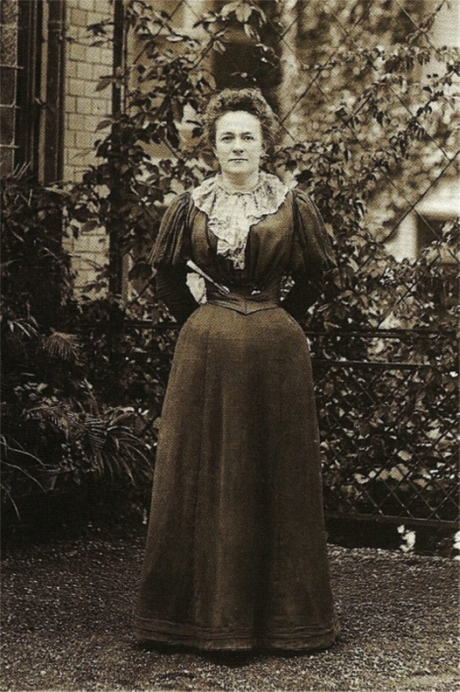 Clara Zetkin during a congress in Zurich 1897